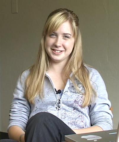 Internet personality Caitlin Hill.